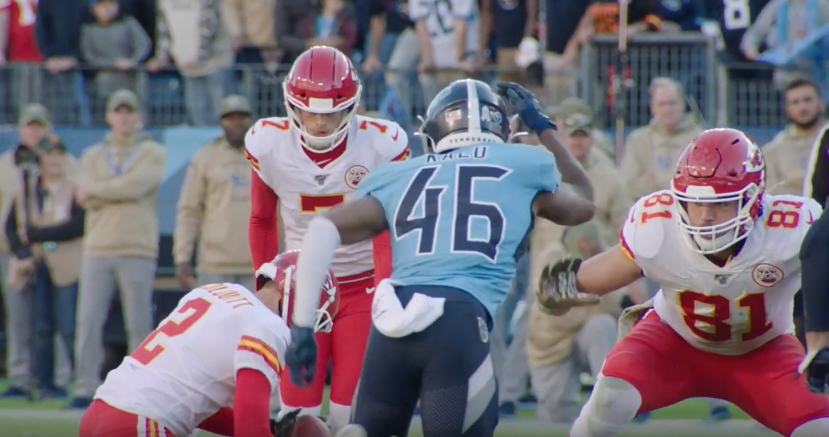 Jordan Kalu 2019. Image taken from video Joshua Kalu's Game-Winning Blocked FG vs. Chiefs | Slow-Mo Monday ~ 00:06